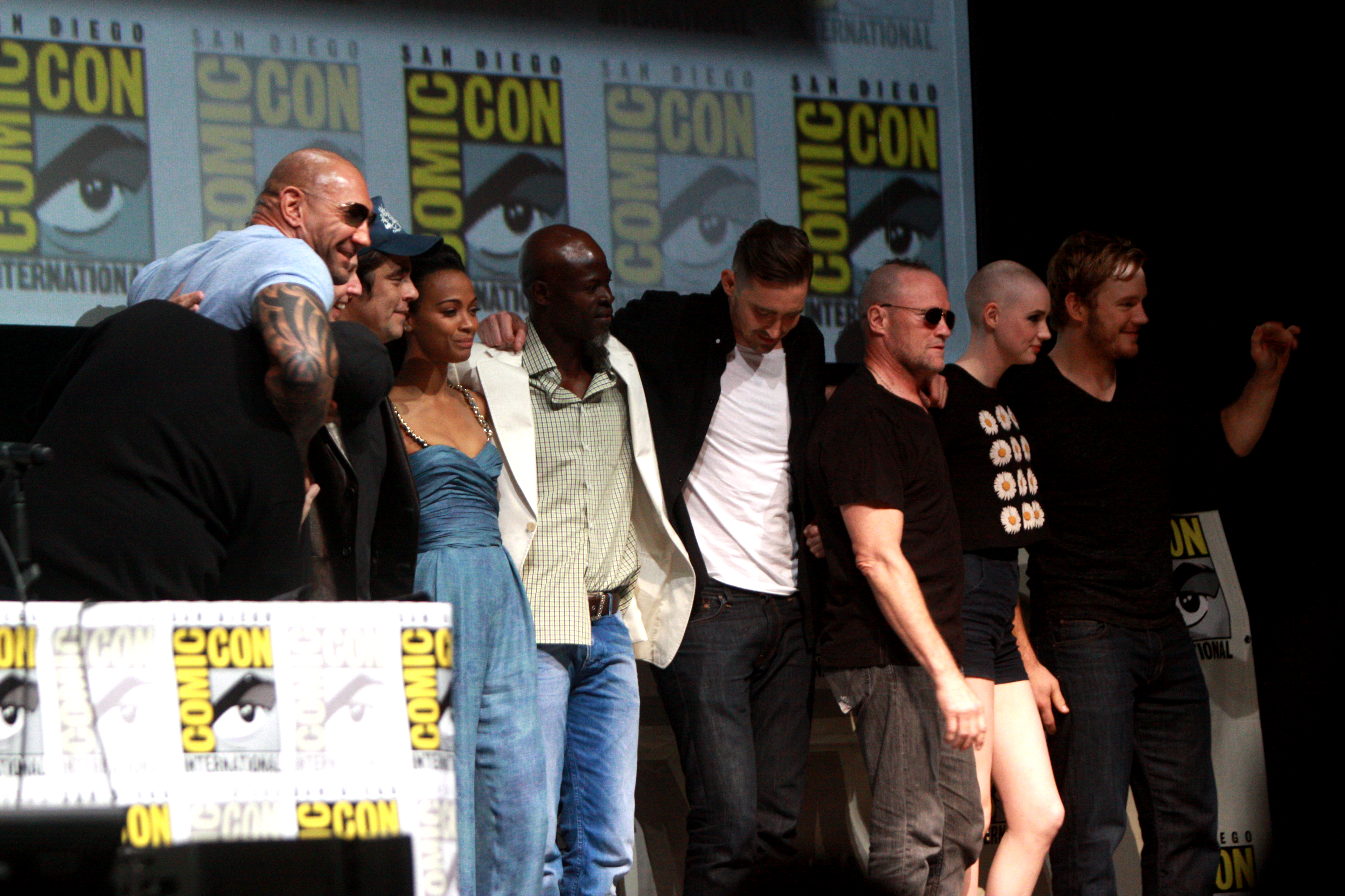 The cast of Guardians of the Galaxy at the 2013 San Diego Comic Con International in San Diego, California.